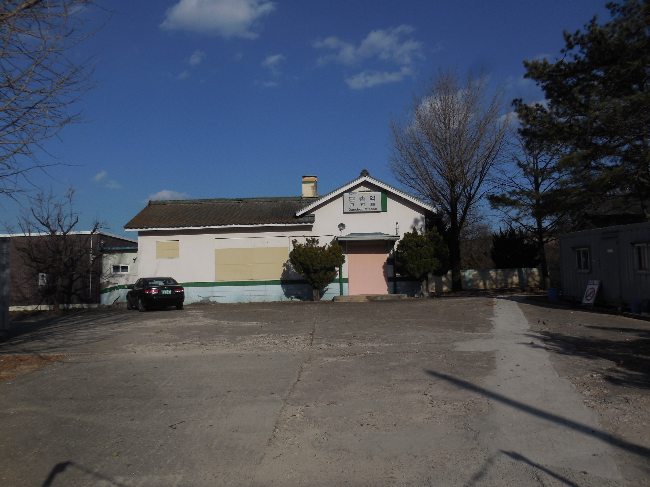 Korail Jungang Line Danchon Station.